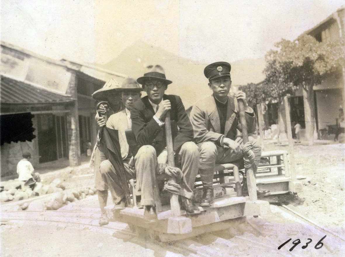 Preliminary automatic translation: Trolley in Puli Street or Turtle Villa Street Secretary Cao Peichang of the Monopoly Bureau Puli, took the precious image of the light trolley in 1936. Mr. Chen Qingfeng, a cultural and historical worker at Turtle Mountain Resort, pointed out that, according to the textual research done, the location should be the old Turtle Villa Street in the hometown of Cao Peichang (now the junction of Zhongxing Road and Mingde in Guishan District, Taoyuan City). However, we would like to raise some doubts as to whether this old photo is a handy truck at Puli Street or Turtle Villa. 1. From the photos' time: Mr. Cao Puichang's time in Puli's office was from May 1935 May to March 1938. At this point in time, this picture is more likely to be taken in Puli Street. Of course, Cao Peichang does not rule out the return of the holiday stay. 2. From the characters in the photo: Cao Peichang (front left), a friend on the right, should be dressed in service of the staff of the Monopoly Bureau at that time. Therefore, we think the composition taken in Puli is larger. 3. From the style of the trolley: From the old photos in Puli, we found a photograph of the old north gate trolley. Comparing the trolley styles in the two pictures, we found that the two were very similar. In particular, the passenger seats were identical and increased This old photo is a tall trolley on Puli Street. 4. From the back of Yamagata: From the photos of Yamagata in the distance, it is more likely to be taken in Puli, but this part should also be consulted on the location of Puli hilltops to help interpret people. Photograph courtesy of Mr. Cao Qingzhi